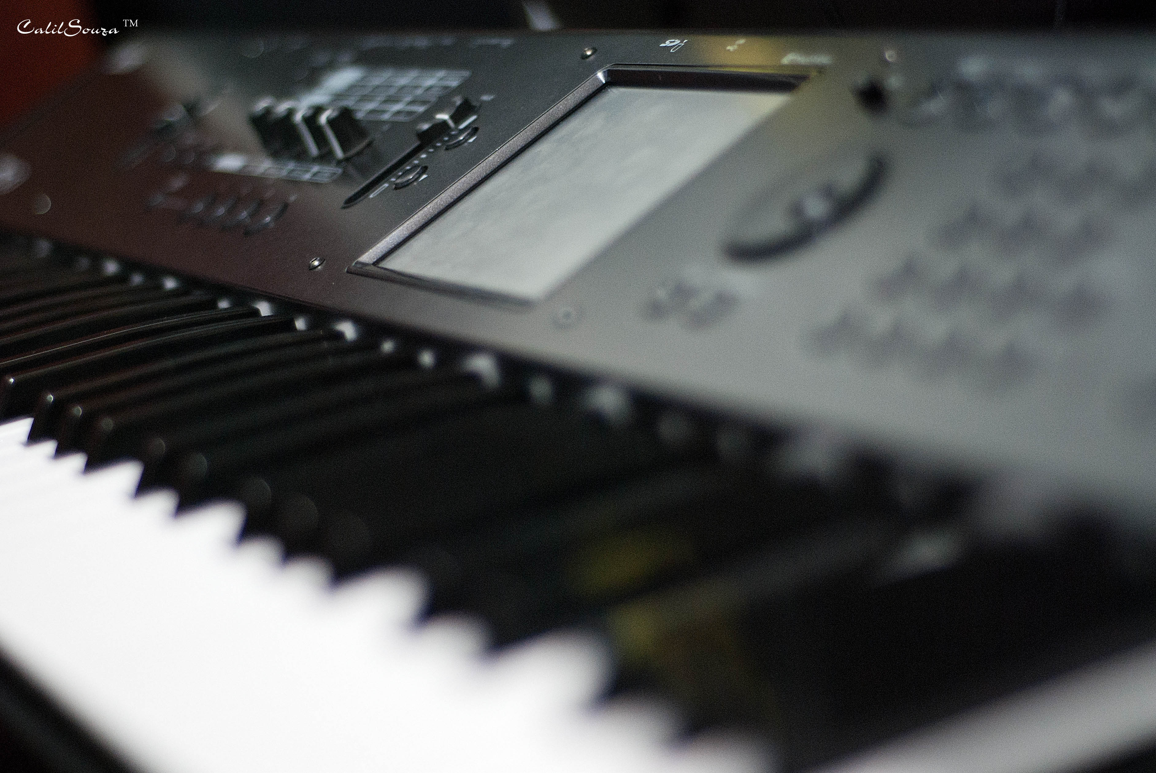 Korg M50 at Calilsouza's Jam Studio